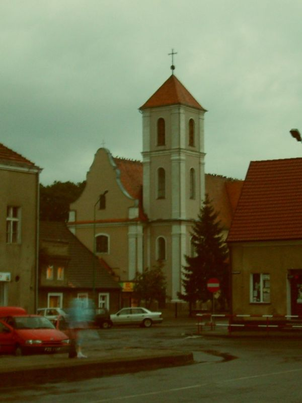 Książ Wielkopolski, Poland, church